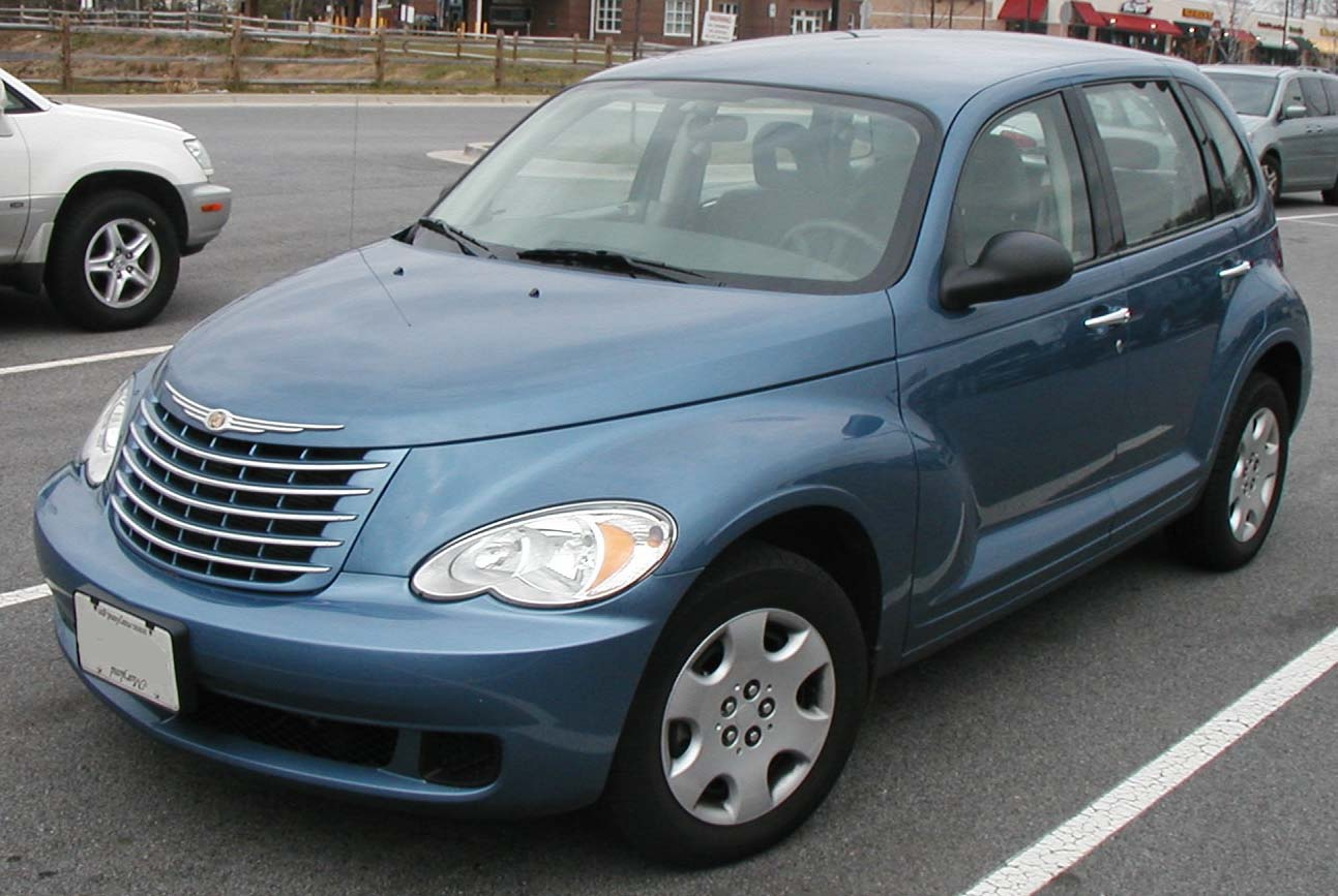 2006-2007 Chrysler PT Cruiser photographed in USA.